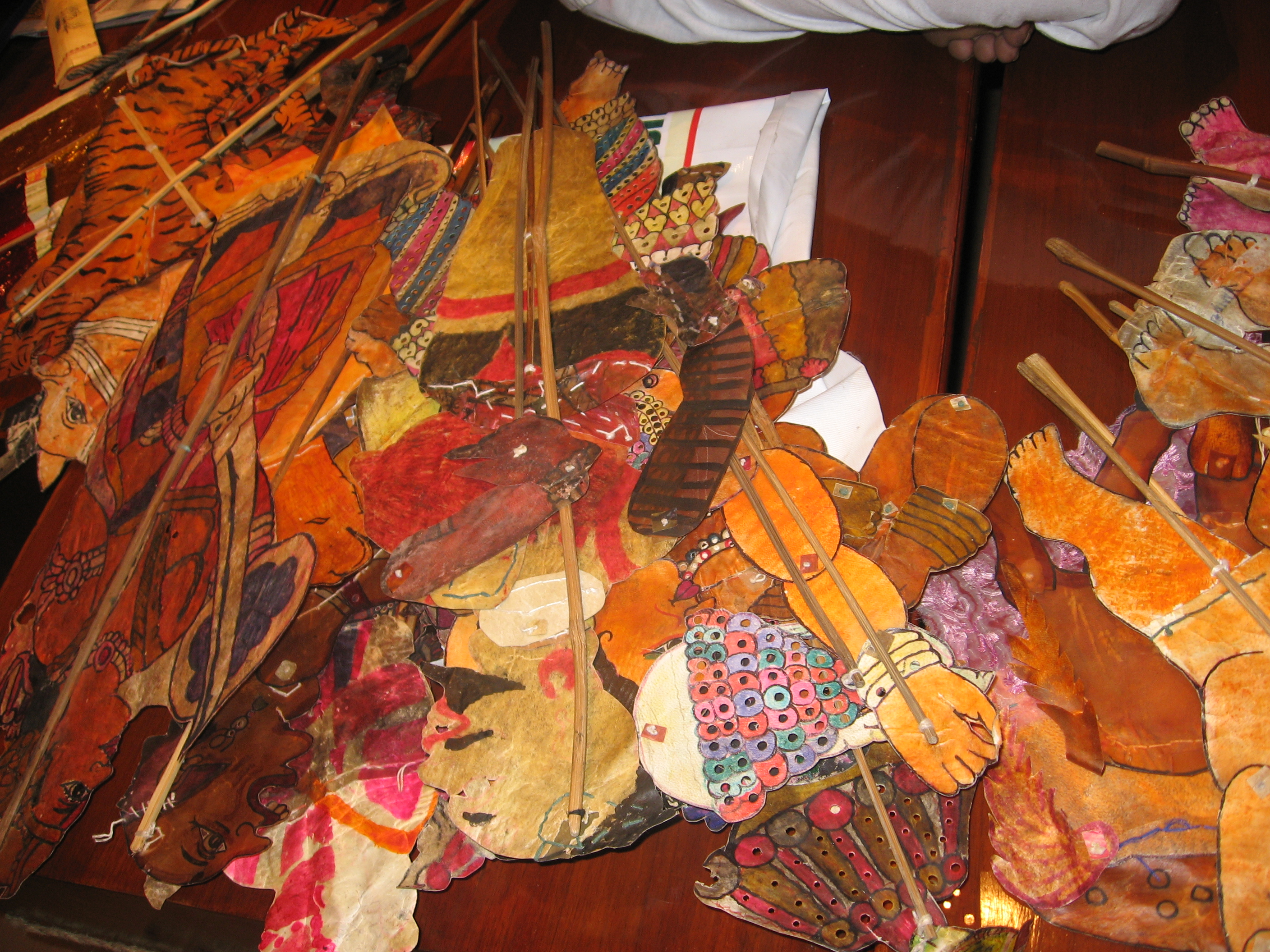 Puppets used in the ancient Tamil art Thol kuthu (Shadow Puppet Show)